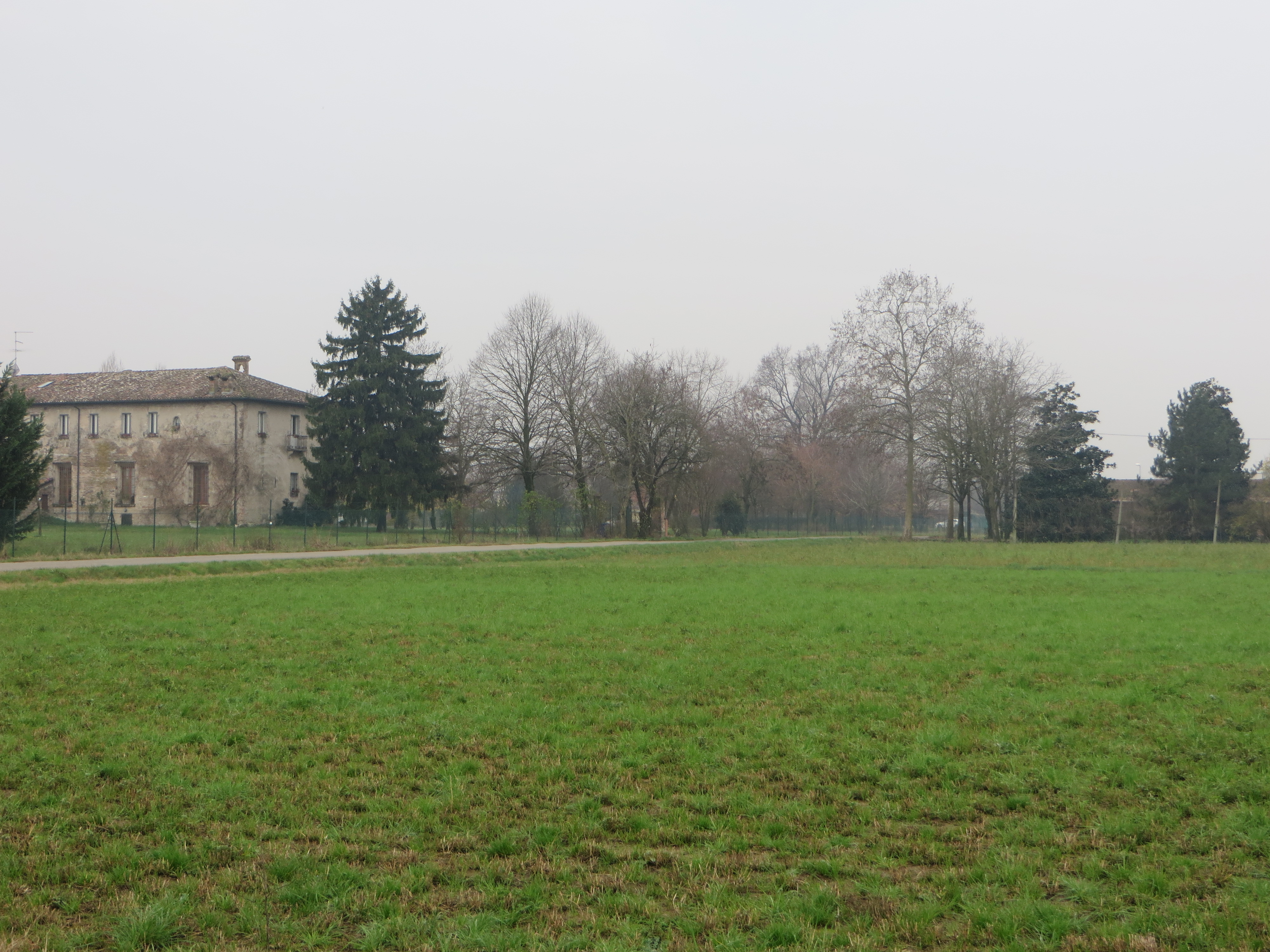 Ancient village position